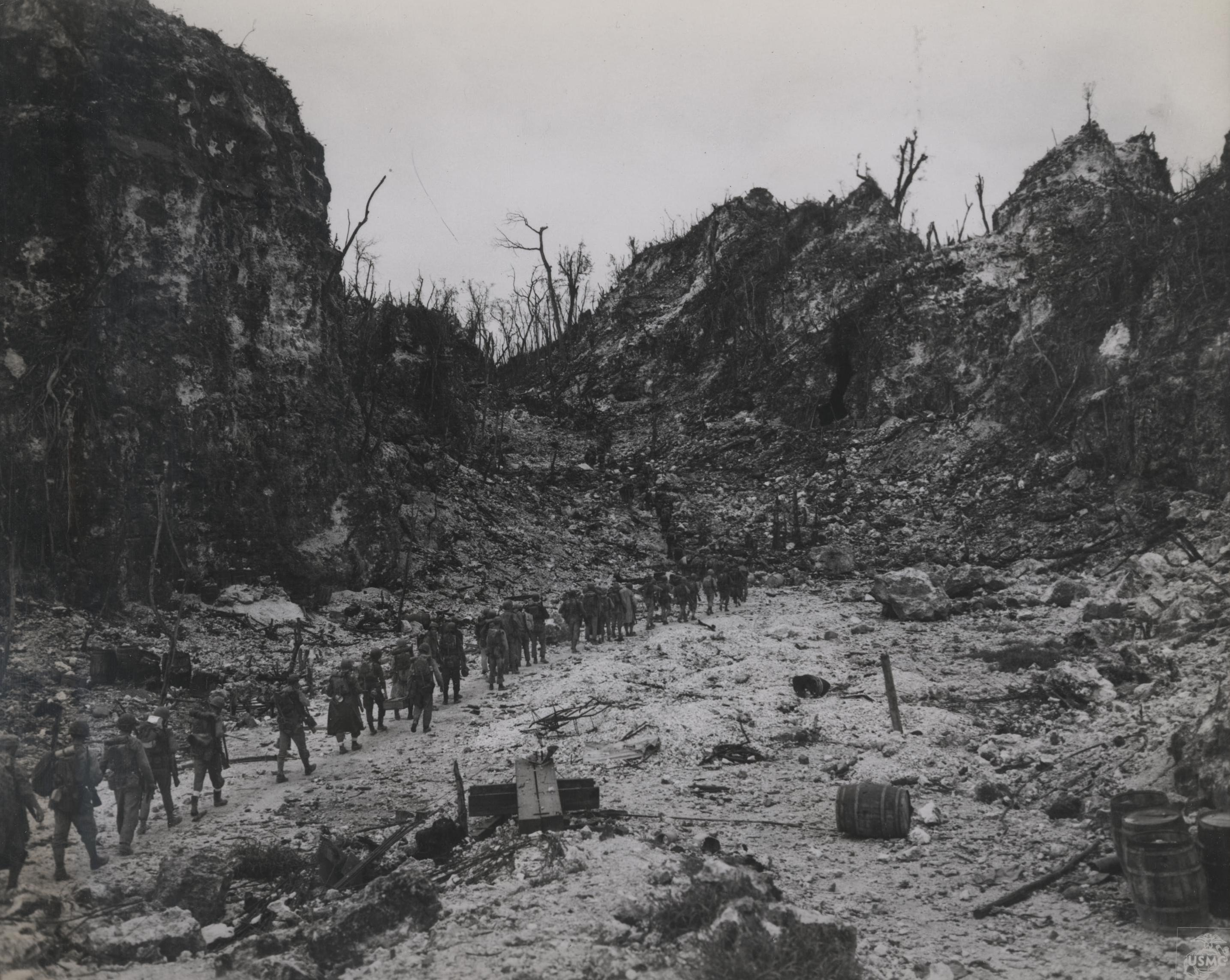 "Rugged Terrain-Picking their way through the rocky terrain on Peleliu, a column of Marines moves up to the front lines. This is the type of terrain on which the Leathernecks battled the remnants of the Japanese forces on the island." From the Photograph Collection (COLL/3948), Marine Corps Archives & Special Collections OFFICIAL USMC PHOTOGRAPH